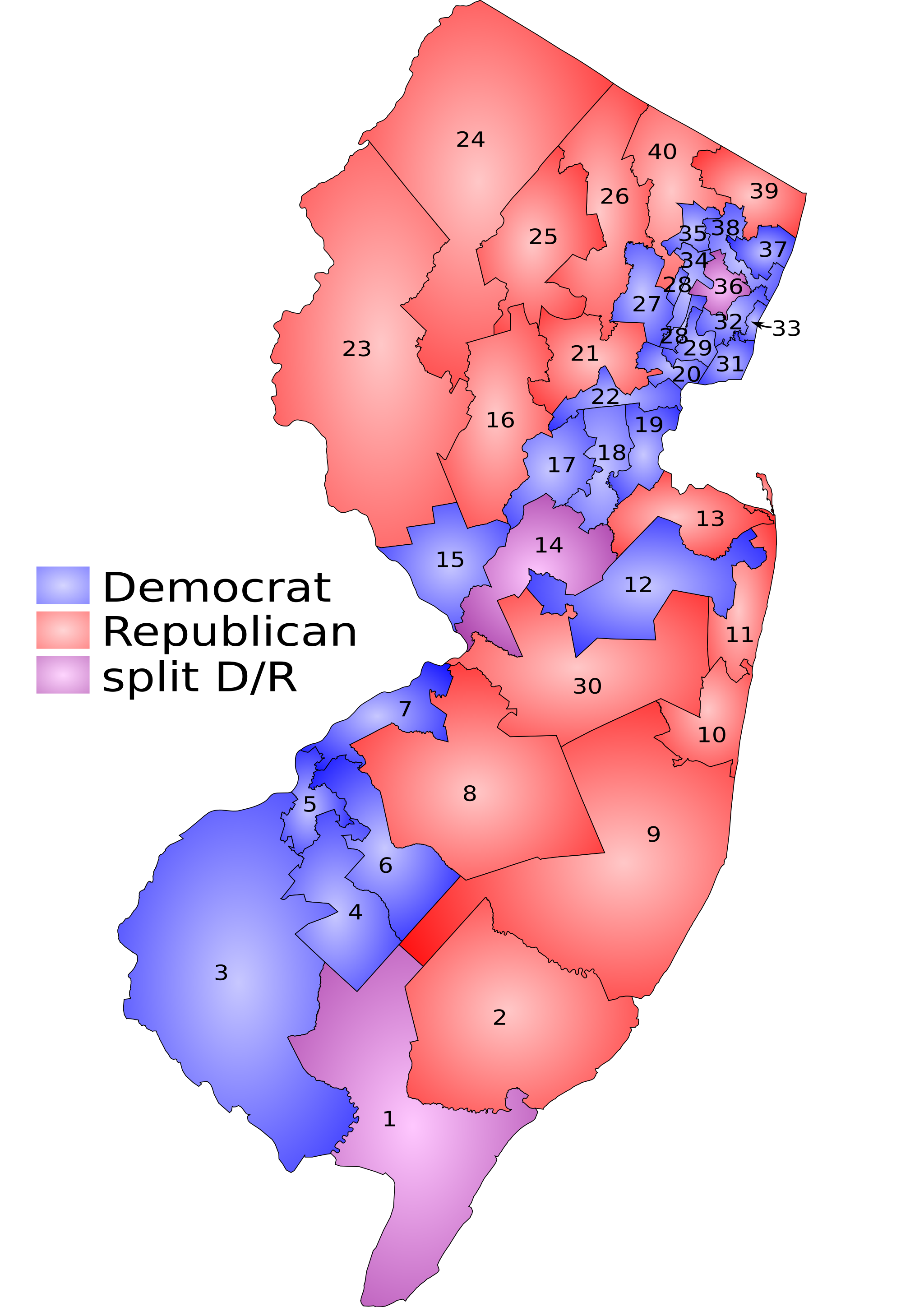 New Jersey state legislative districts, based upon 2000 U.S. census, went into effect 2001. Colored by party of NJ State Assembly representatives for 2004 to 2005 term. Sources: Outline maps came from: [1], believed ((PD-ineligible)). Converted to SVG, edited in Inkscape. Numbering as per [2] (PDF). Colored according to data here: [3] SVG source code: Image:New_Jersey_Legislative_Districts_2001_by_2004_2005_assembly_party.svg